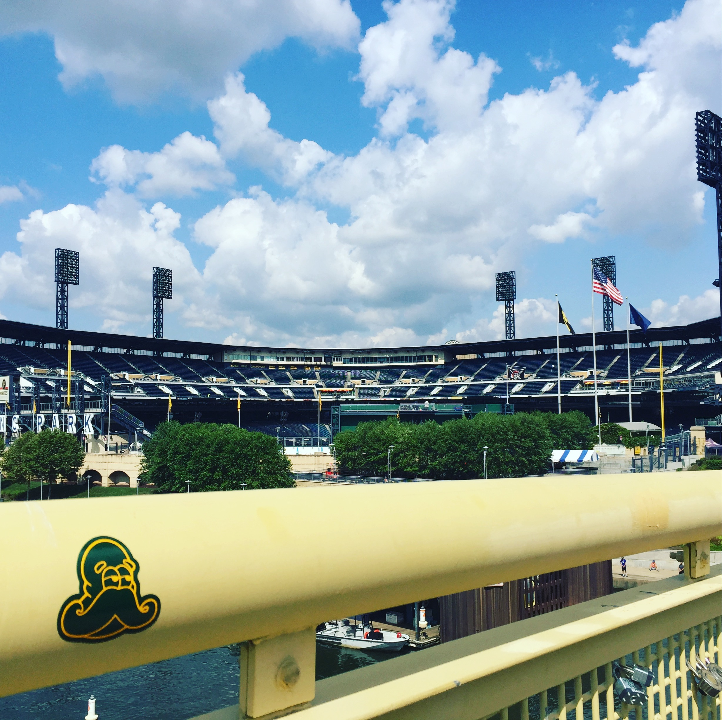 Photo of sticker art in Pittsburgh